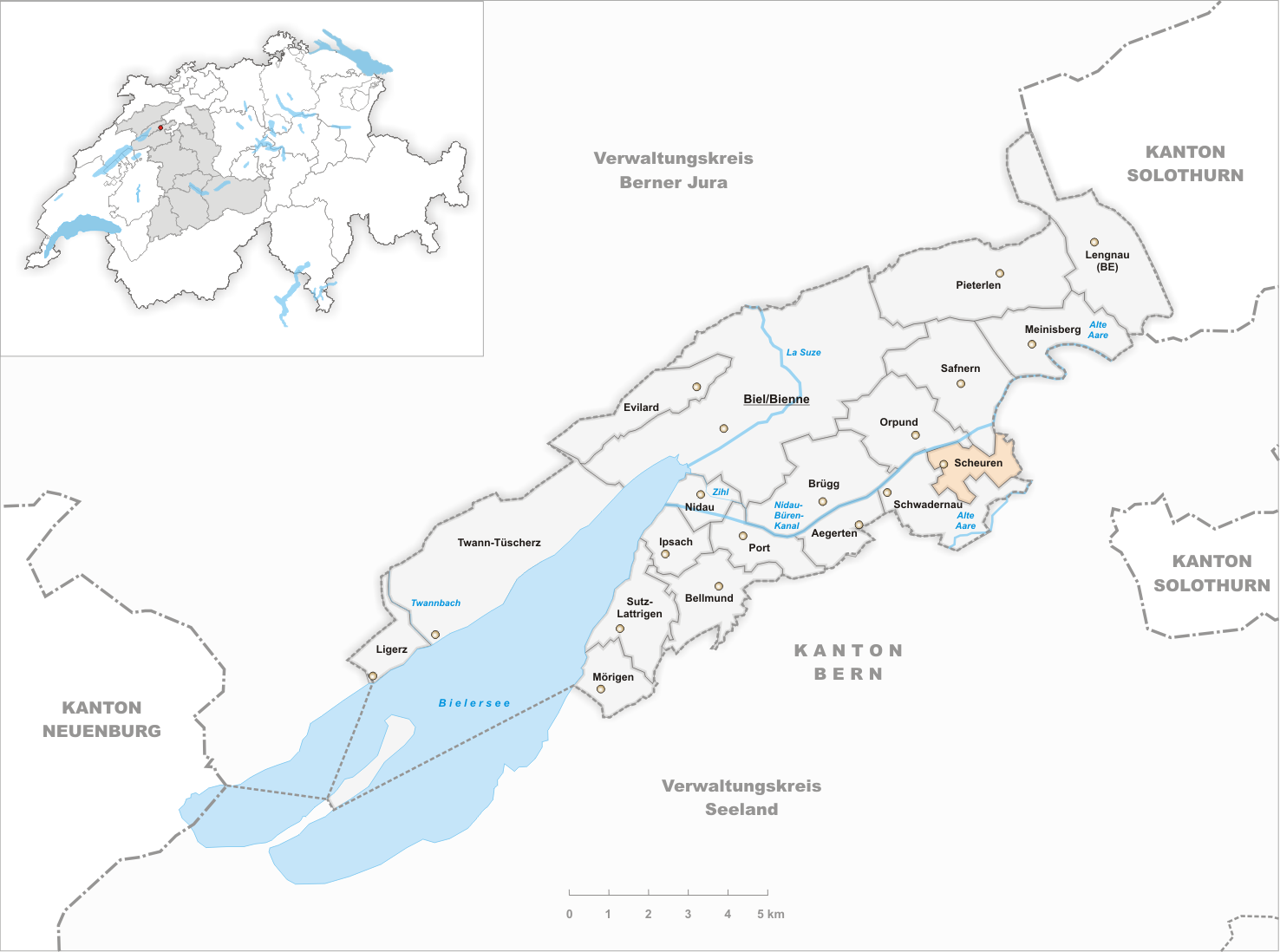 Municipality Scheuren